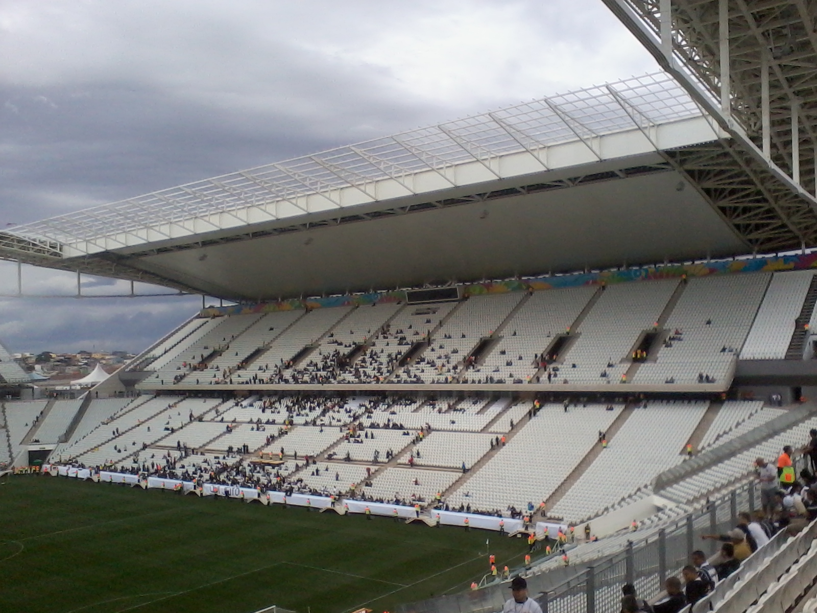 Eastern sector of the Corinthians Arena!